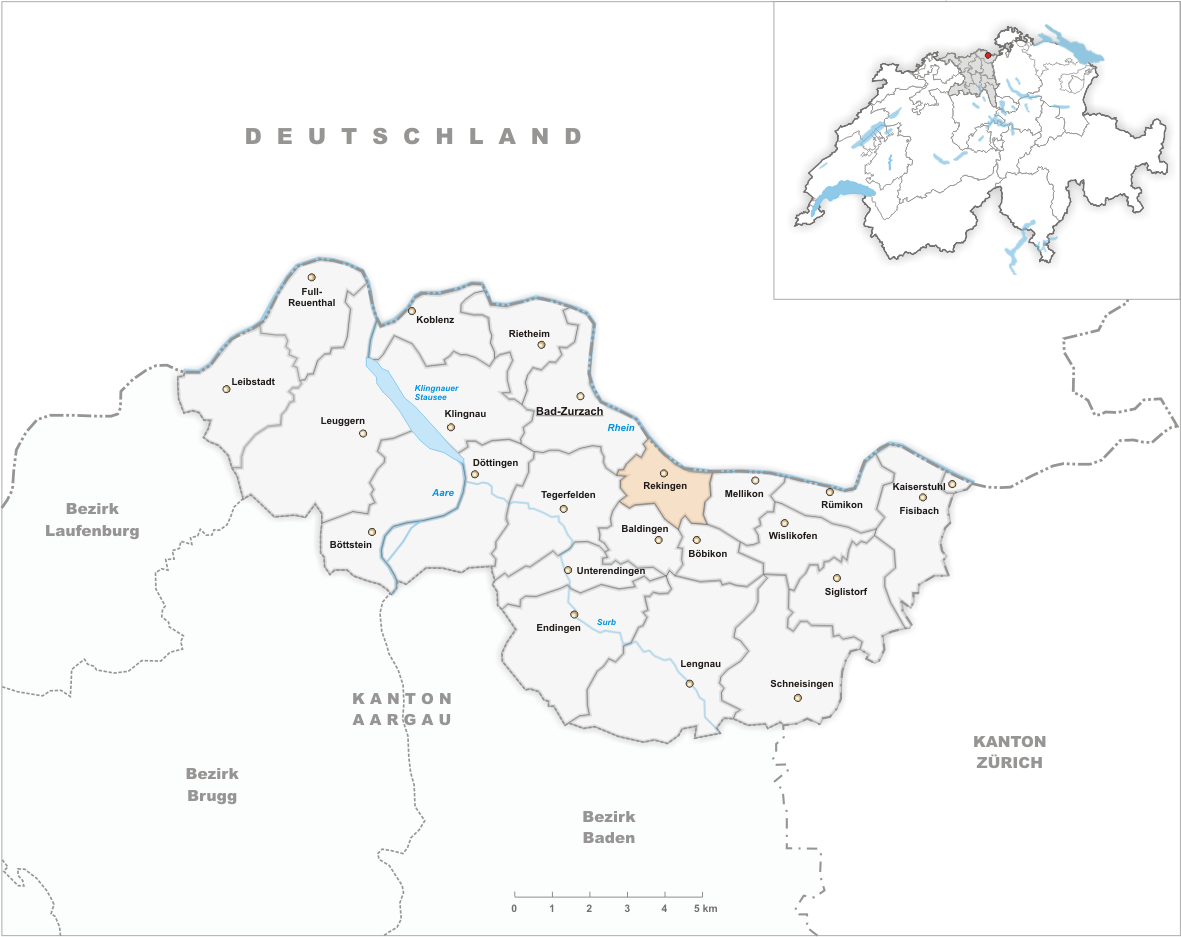 Municipality Rekingen